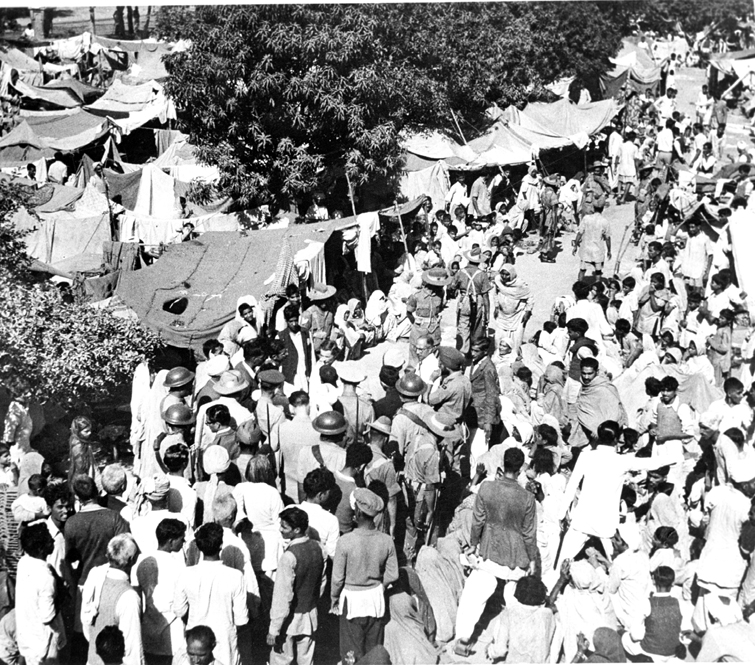 APO/February,54,A31dHer Excellency Lady Mountabatten amongst the Hindu evacuees at the Punjab Scouts Camp, Layallpur. 50,000 evacuees were crowded together in buildings and under improvised tents.Photo Number:-37162